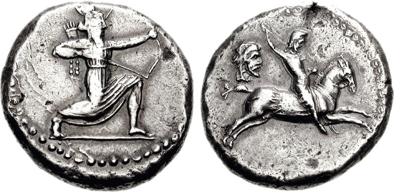 CARIA, Achaemenid Period. Circa 341-334 BC. AR Tetradrachm (15.07 g, 12h). Struck circa 341-334 BC. Persian king or hero in kneeling-running stance right, drawing bow / Satrap on horseback right, thrusting spear; to left, bearded male head right. Konuk, Influences, Group 5 var. (head of Herakles); SNG Copenhagen (Persian Empire) 290-291 var. (same); Traité II 121 var. (same). Good VF, attractively toned, minor porosity. Unpublished variety of an extremely rare type with symbol on reverse.